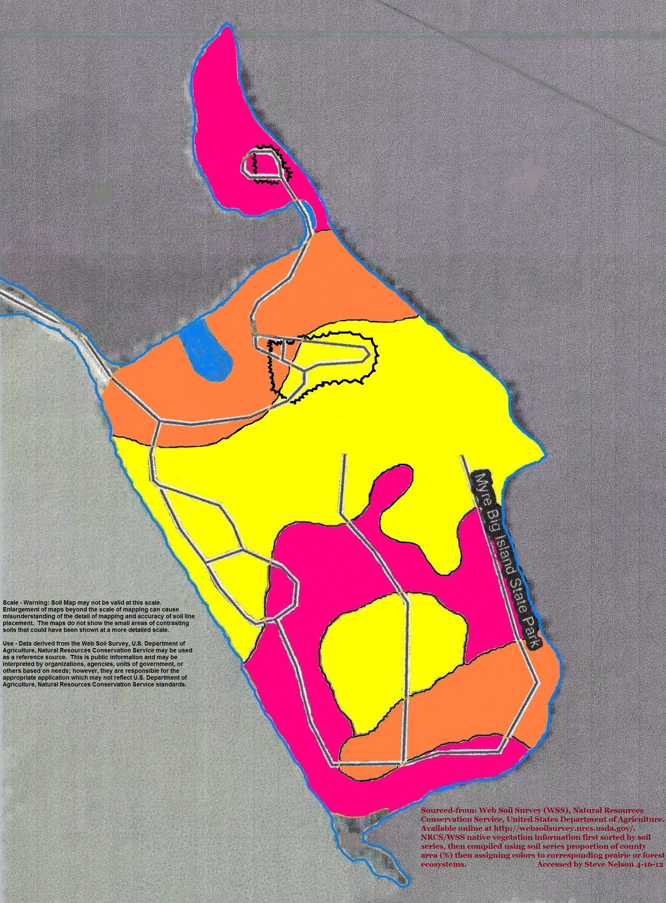 Colored map shows the island in Myhre-Big Island State Park in Freeborn County Minnesota. There are no forests on this island, only prairie ecosystems of prairie, oak savanna and mixed hardwoods and prairie grasses. See pie chart for color keys to native vegetation.